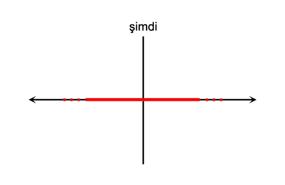 Aorist/present tense in Turkish. Dots symbolize the uncertainty of the beginning and the end of the event/situation.